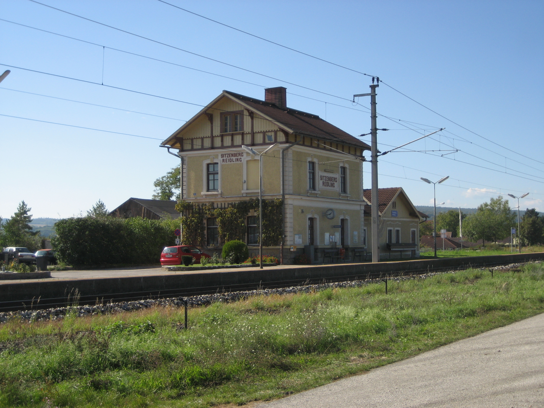 Train station Sitzenberg-Reidling in Lower Austria